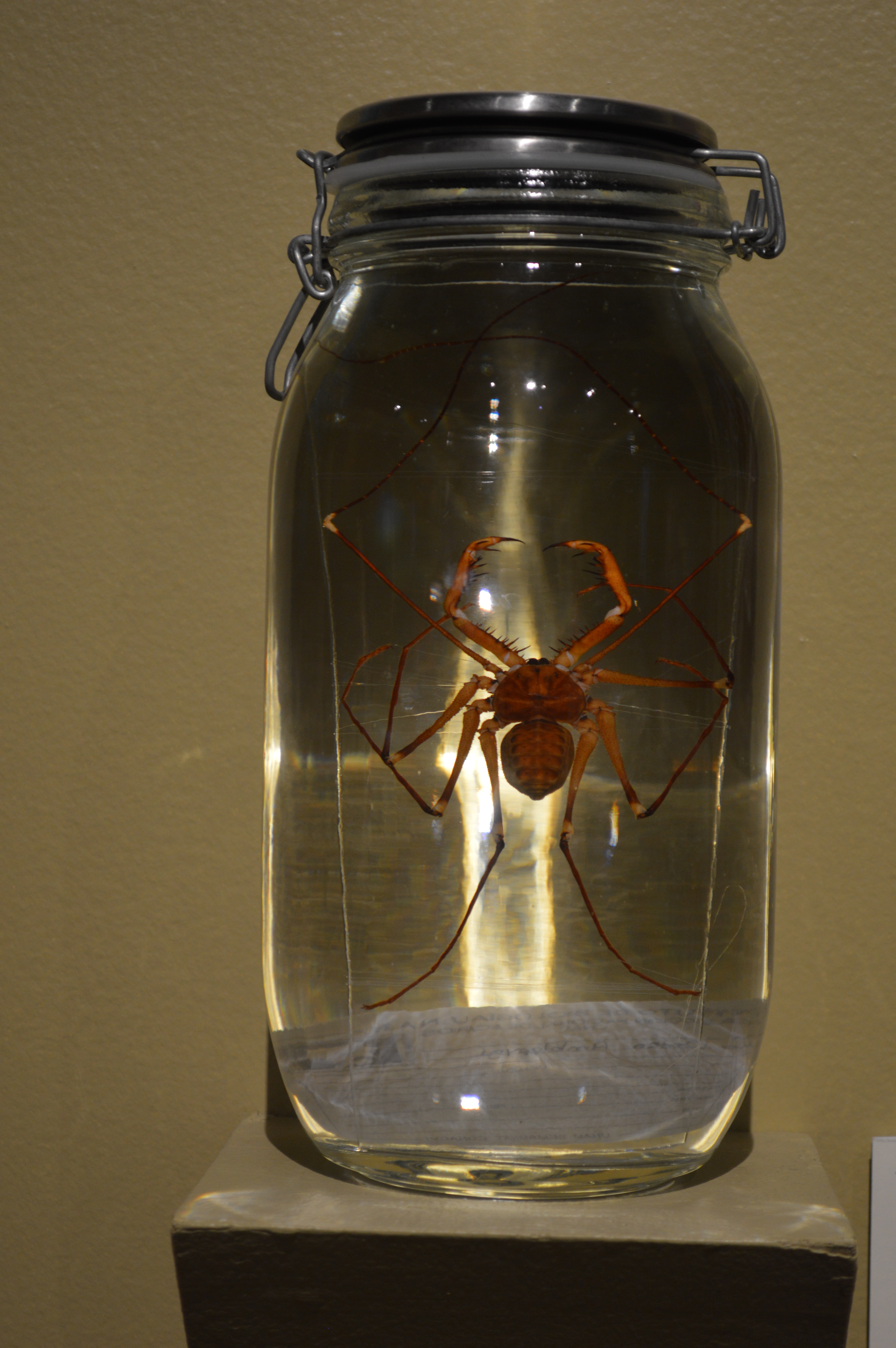 Acantophrynus coronatus specimen from the National Collection of Arachnids at UNAM at the El Norte, su materia, su artesania at the Museo de Arte Popular in Mexico City